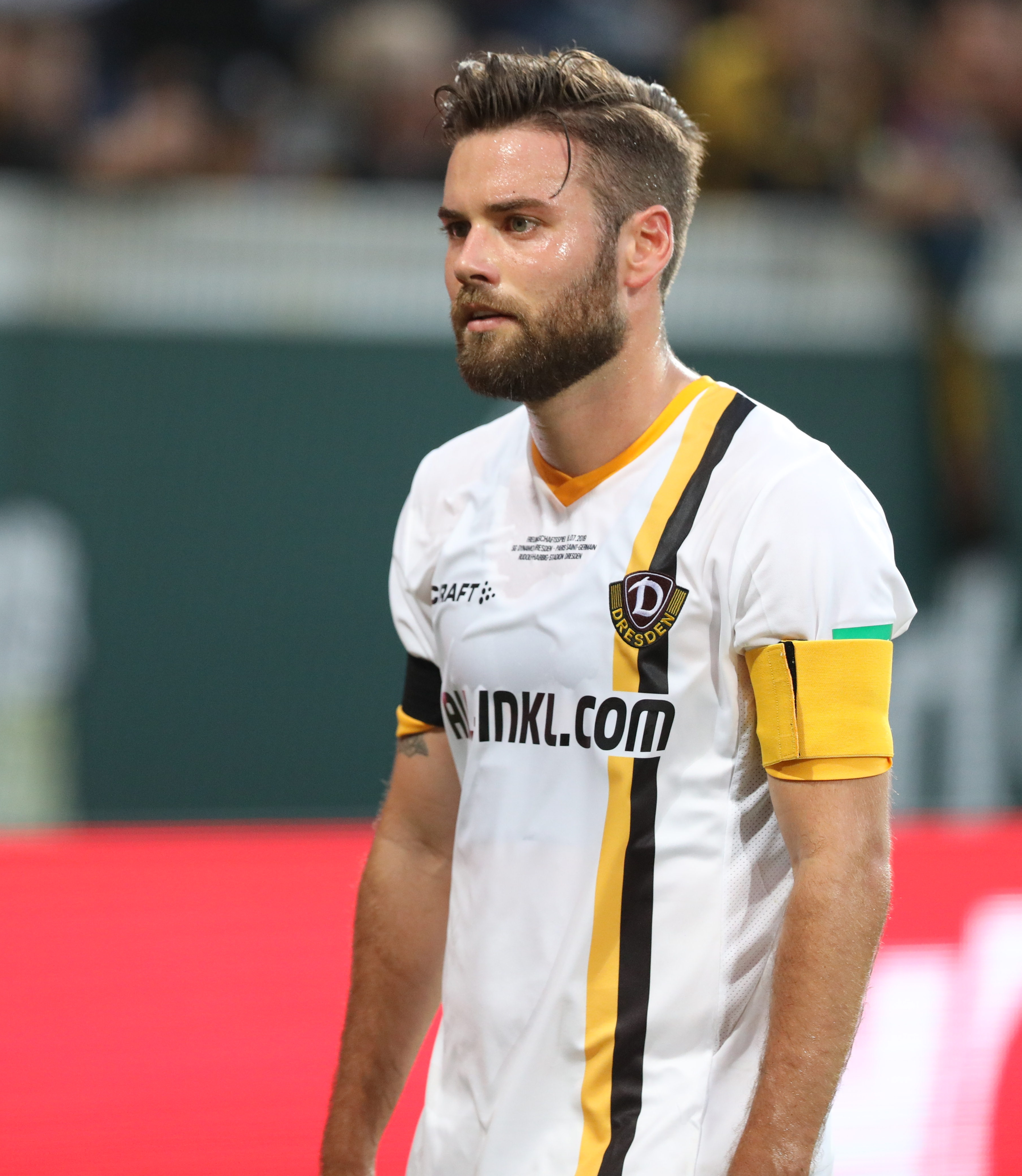 Test game, 17th July 2019: SG Dynamo Dresden vs. Paris Saint-Germain 1:6 (0:3)